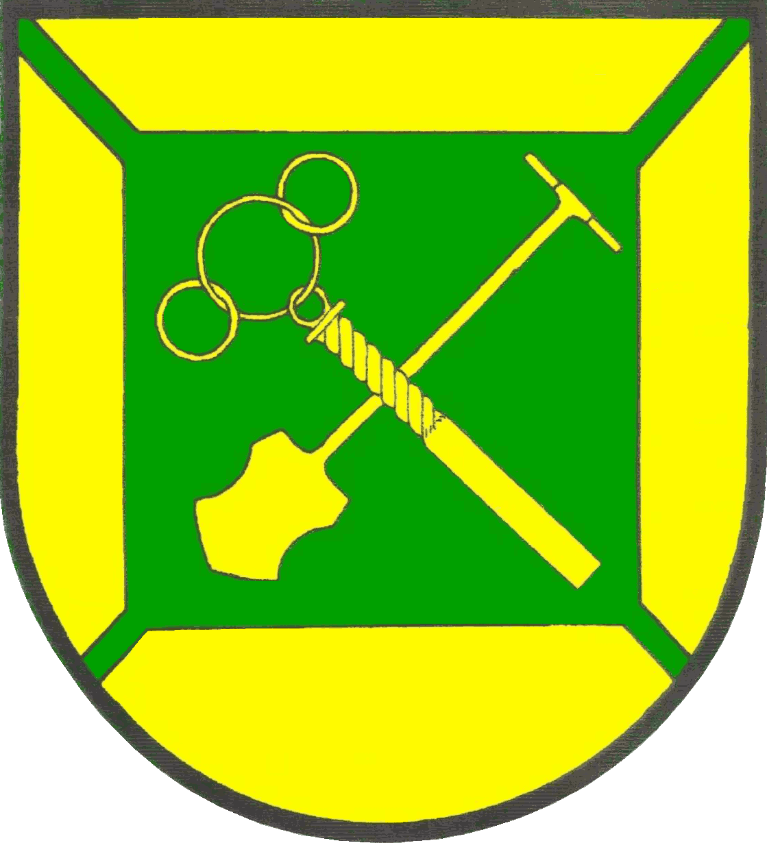 Coat of arms of the municipality Jardelund in Schleswig-Holstein, Germany